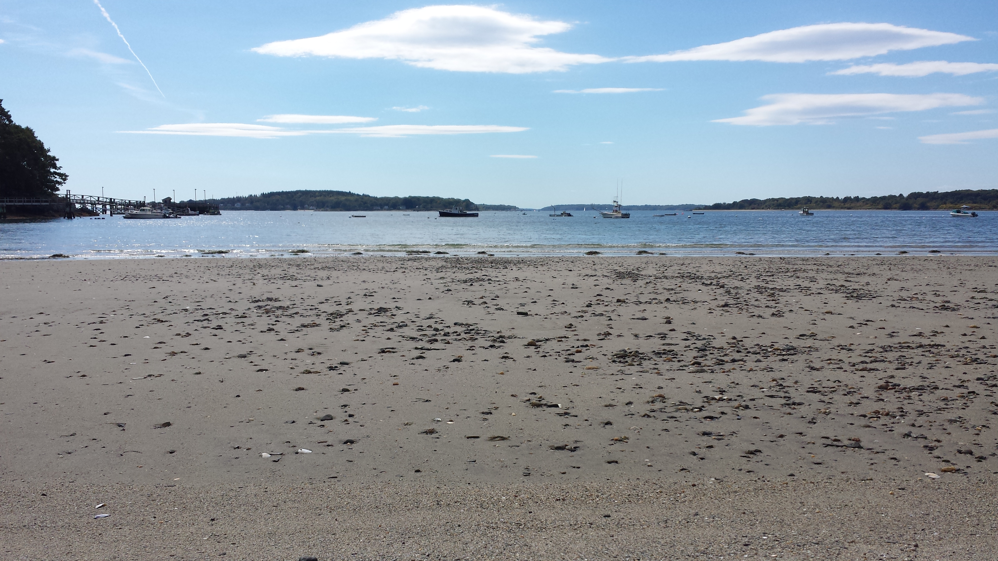 View from the beach at Chandler Cove on Chebeague Island, an island town in Cumberland County, Maine, United States, located in Casco Bay